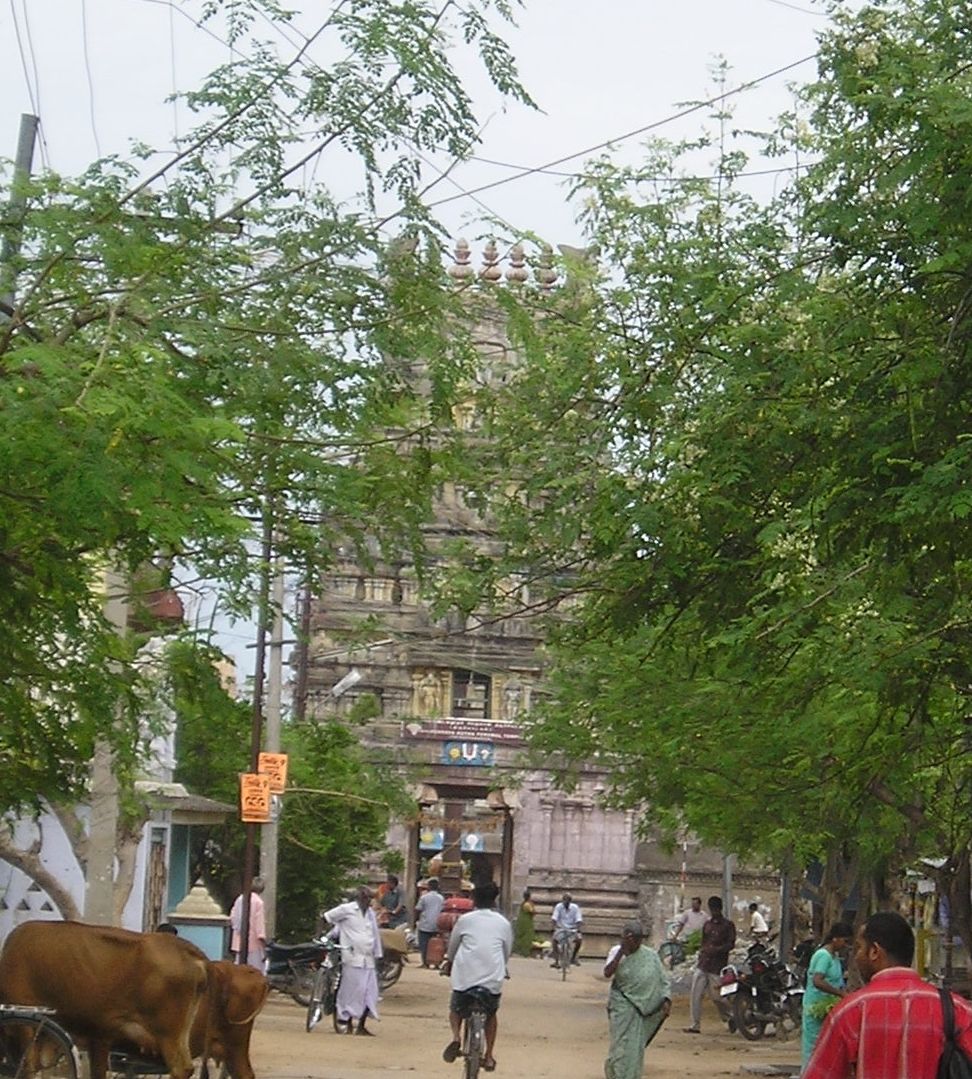 Kanchipuram Temple